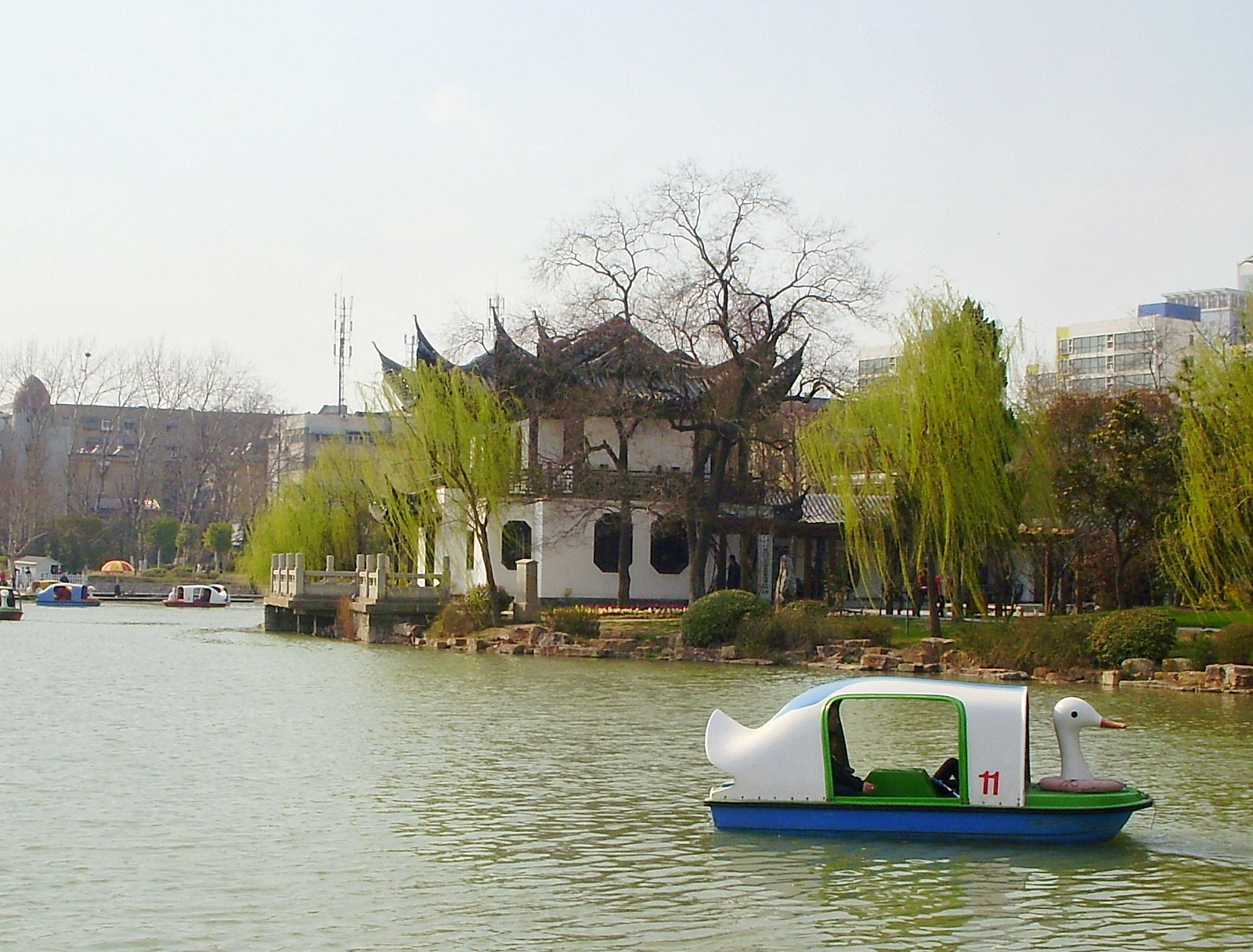 Yanzi(Swallow) Tower